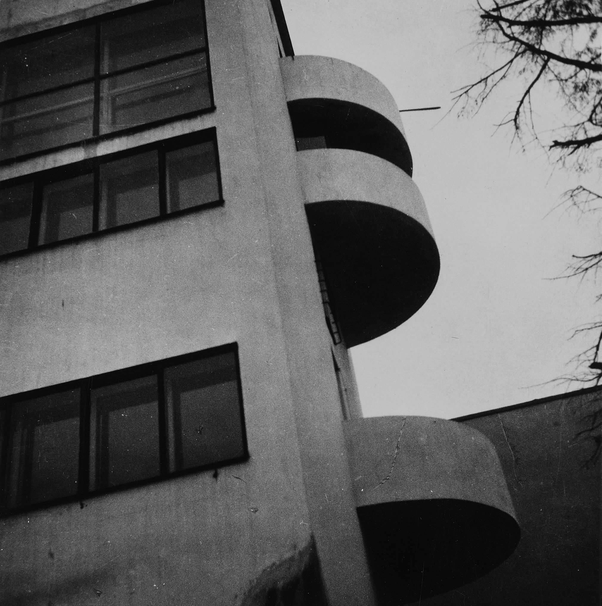 Narkomfin apartments Moscow, USSR Architects: Moisei Ginzburg and Ignatii Milinis (1928-1929) Type: A-negative Exterior view, side façade with balconies, detail